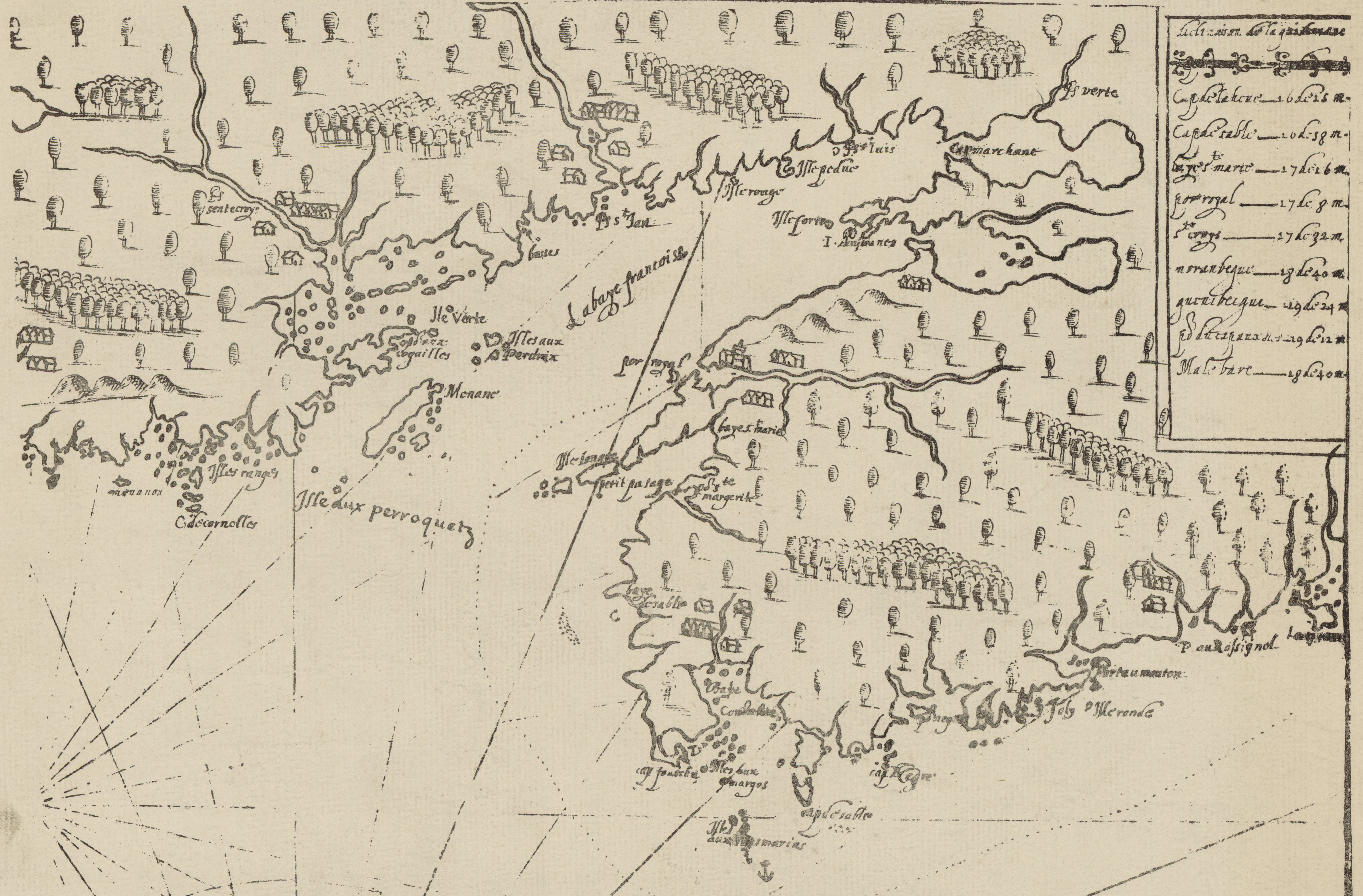 1855 reproduction of 1607 Manuscript fragment of Map of Acadia (l'Acadie) by Samuel De Champlain